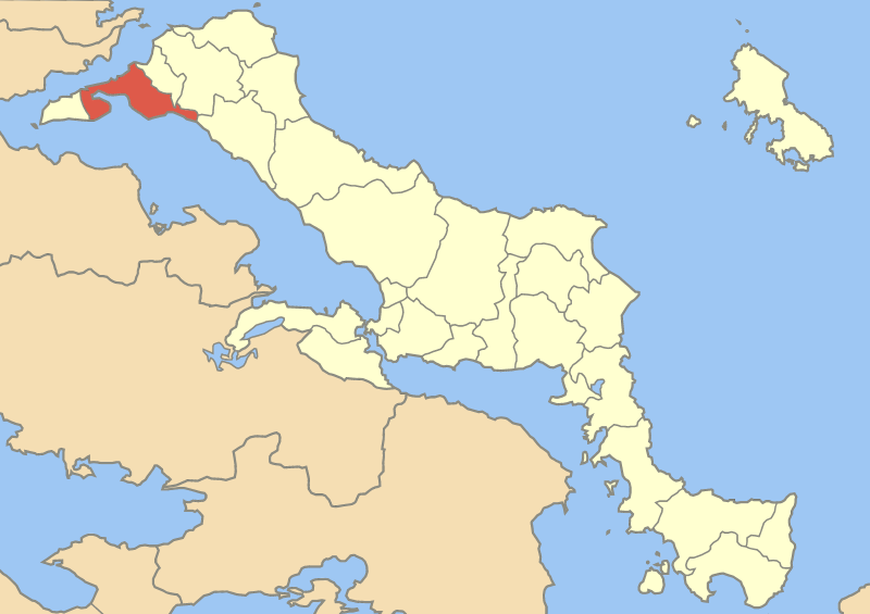 Locator map of Edipsos municipality (Δήμος Αιδηψού) in Euboea prefecture (Νομός Εύβοιας) in Greece.